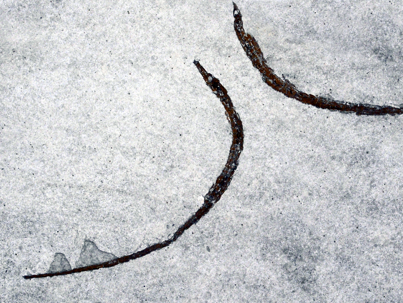 Fossil of "Syngnathus phlegon" from Pliocene of Italy, on display at Museo Geologico G. Cappellini, Bologna